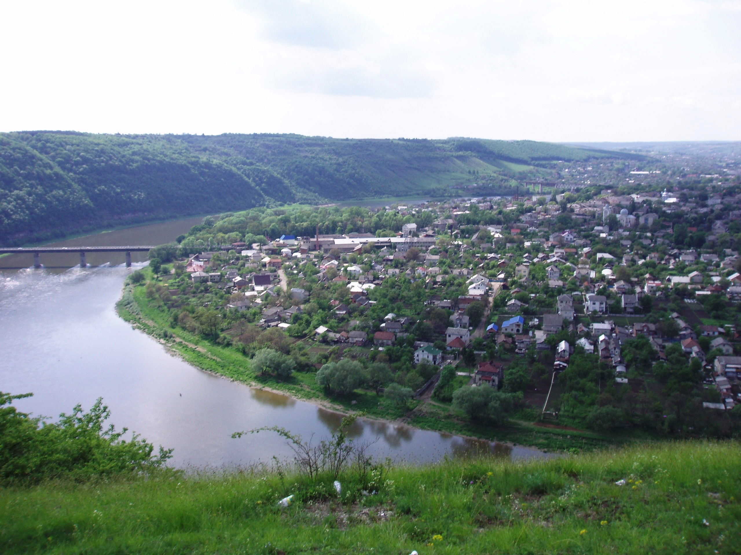 Panorma View of Zalischyky, Ternopil Region, Ukraine